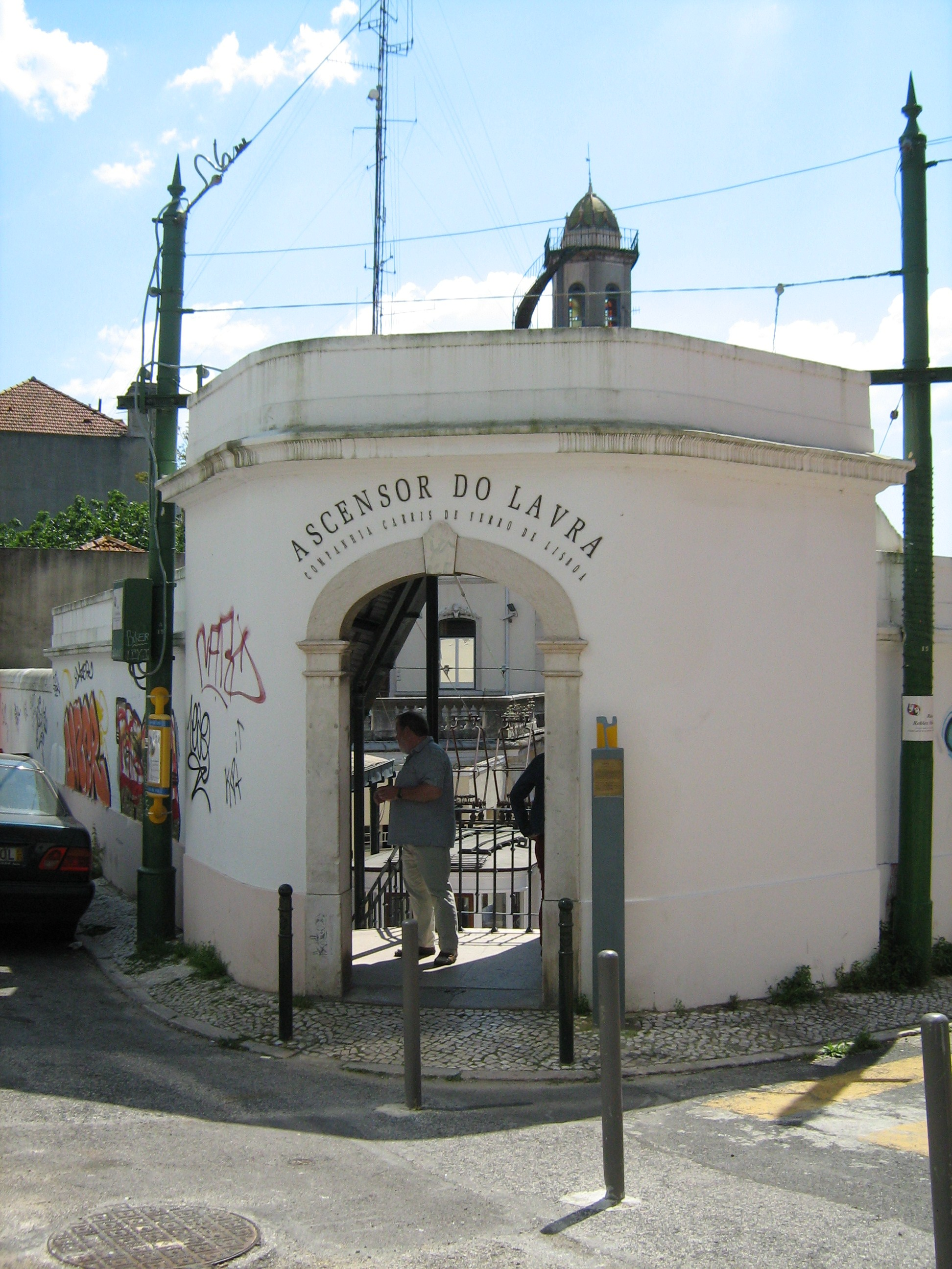 Elevador do Lavra, the first funicular in Lisbon. Top station. April 2013